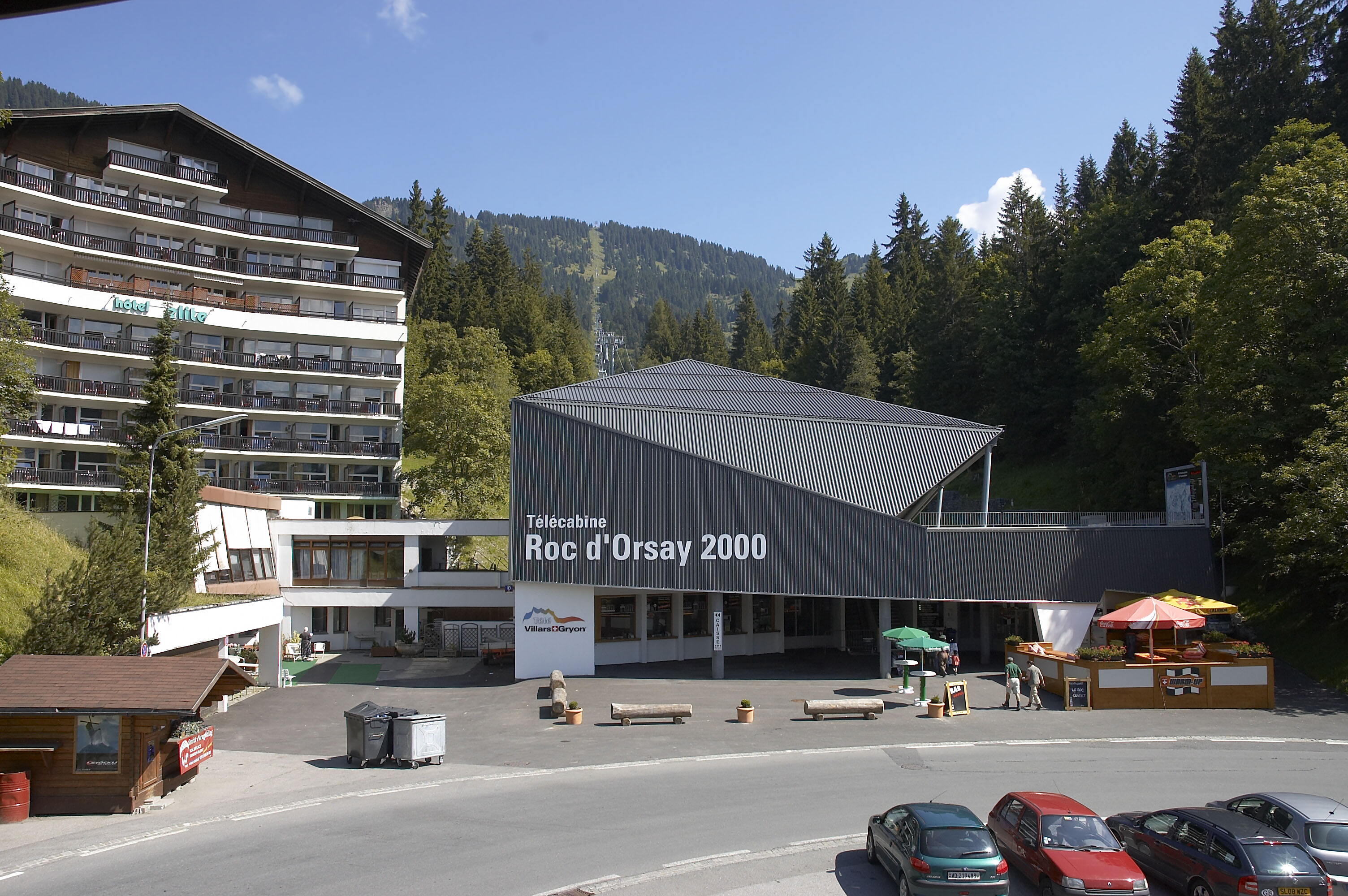 Télécabine Roc d'Orsay 2000 in Villars-sur-Ollon